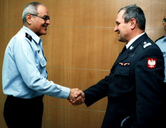 Poland’s air force commander, Lt. Gen. Stanislaw Targosz and his entourage visited IAF’s air bases, accompanied by IAF commander, Maj. Gen. Shkedi.